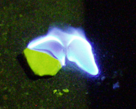 A piece of sulfur burning with a blue flame that can clearly be seen at night.